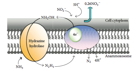 Proposed mechanism for anammox reaction, wherein the reduction of nitrite and the oxidation of hydrazine occur at different sites of the same enzyme.